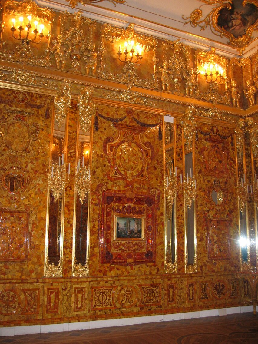 Pushkin (Russia), Amber room of the Catherine Palace